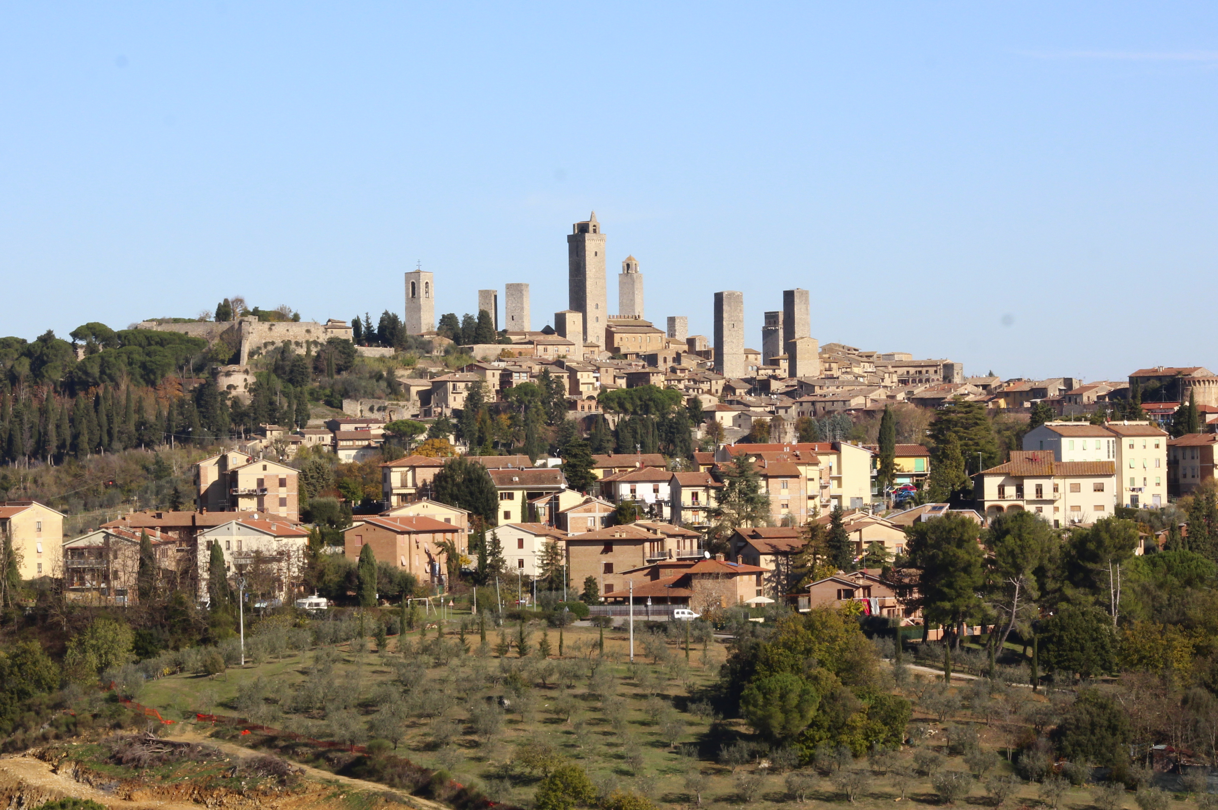 Panorama of San Gimignano, Province of Siena, Tuscany, Italy